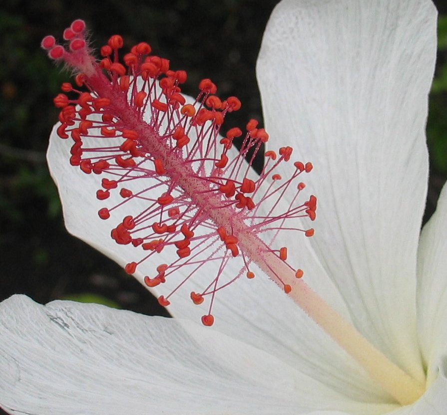 Kokiʻo keʻokeʻo or Kauai white hibiscus Malvaceae Endemic to the Hawaiian Islands (Kauaʻi only) Oʻahu (Cultivated) The two native Hawaiian white hibiscuses, Hibiscus arnottianus and H. waimeae, are the only known species of hibiscuses in the world known to have fragrant flowers! NPH0003